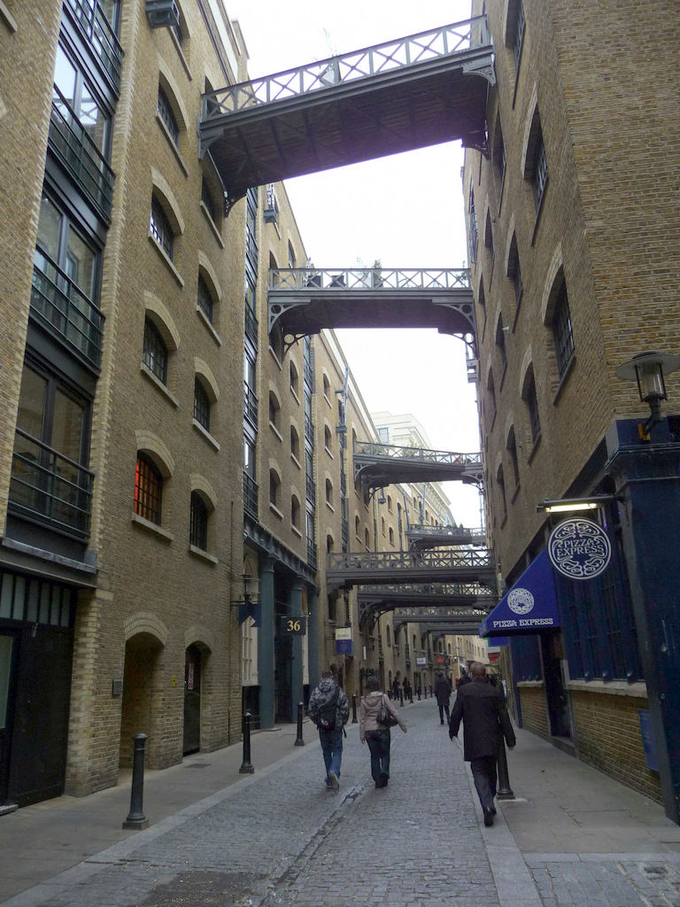 Shad Thames, London SE1 Restored area behind Butlers Wharf. This area is often used for film making.